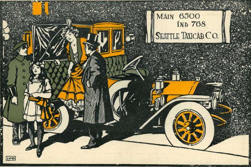 Seattle Taxicab Company Advertisement, 1911 Subjects (LCTGM): Taxicabs Taxicab drivers Automobiles Digital Collection: Early Advertising Item Number: ADV0365 Persistent URL: Visit Special Collections reproductions and rights page for information on ordering a copy. University of Washington Libraries. Digital Collections